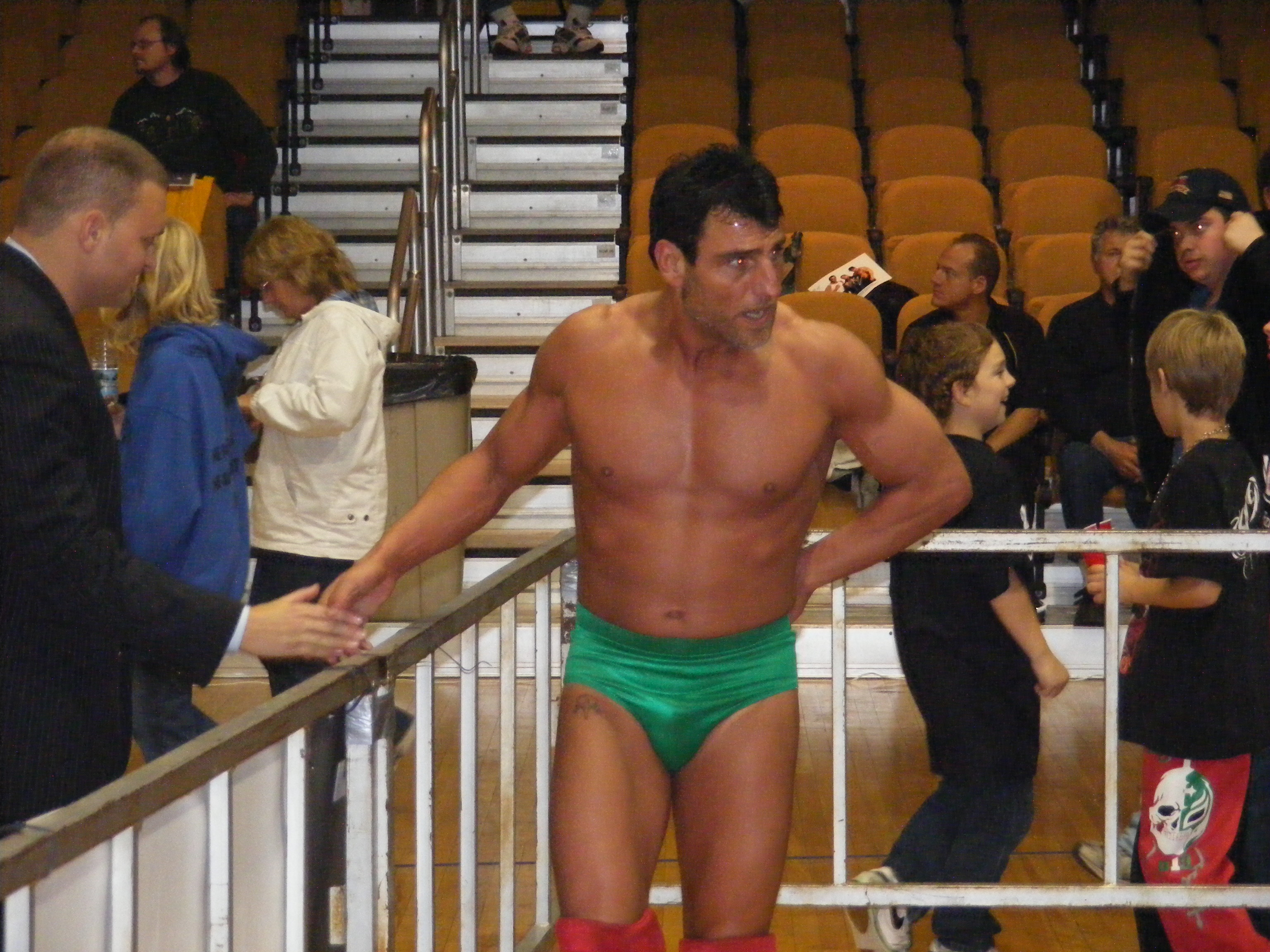 James "Little Guido" Maritato at a WUW show in Albany on October 25, 2008